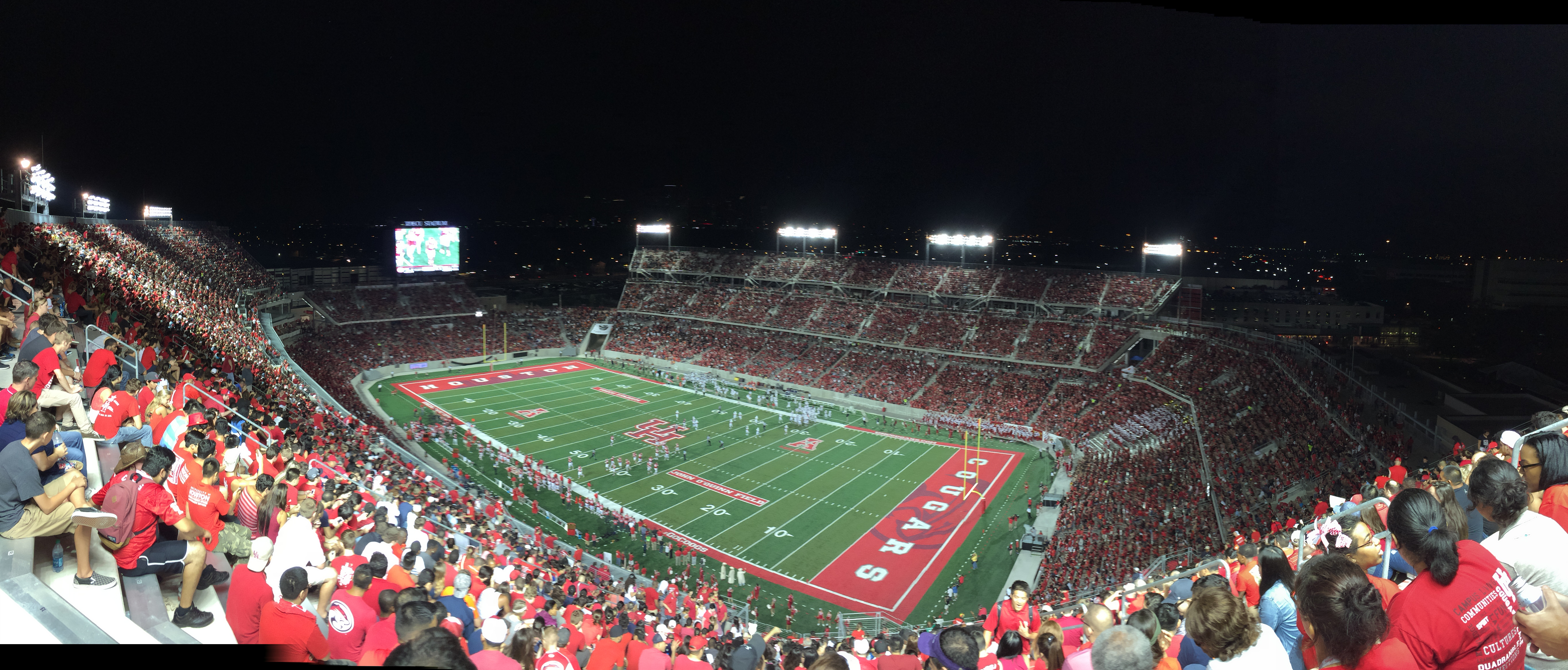 A panoramic view of TDECU Stadium on the campus of the University of Houston. If this photo is used elsewhere, it must be accompanied by a text caption that reads: "Courtesy of Brian Reading".